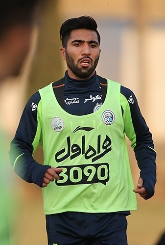 Farshid Esmaeili